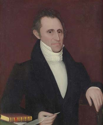 Jeremiah Russell, Congressman from New York.